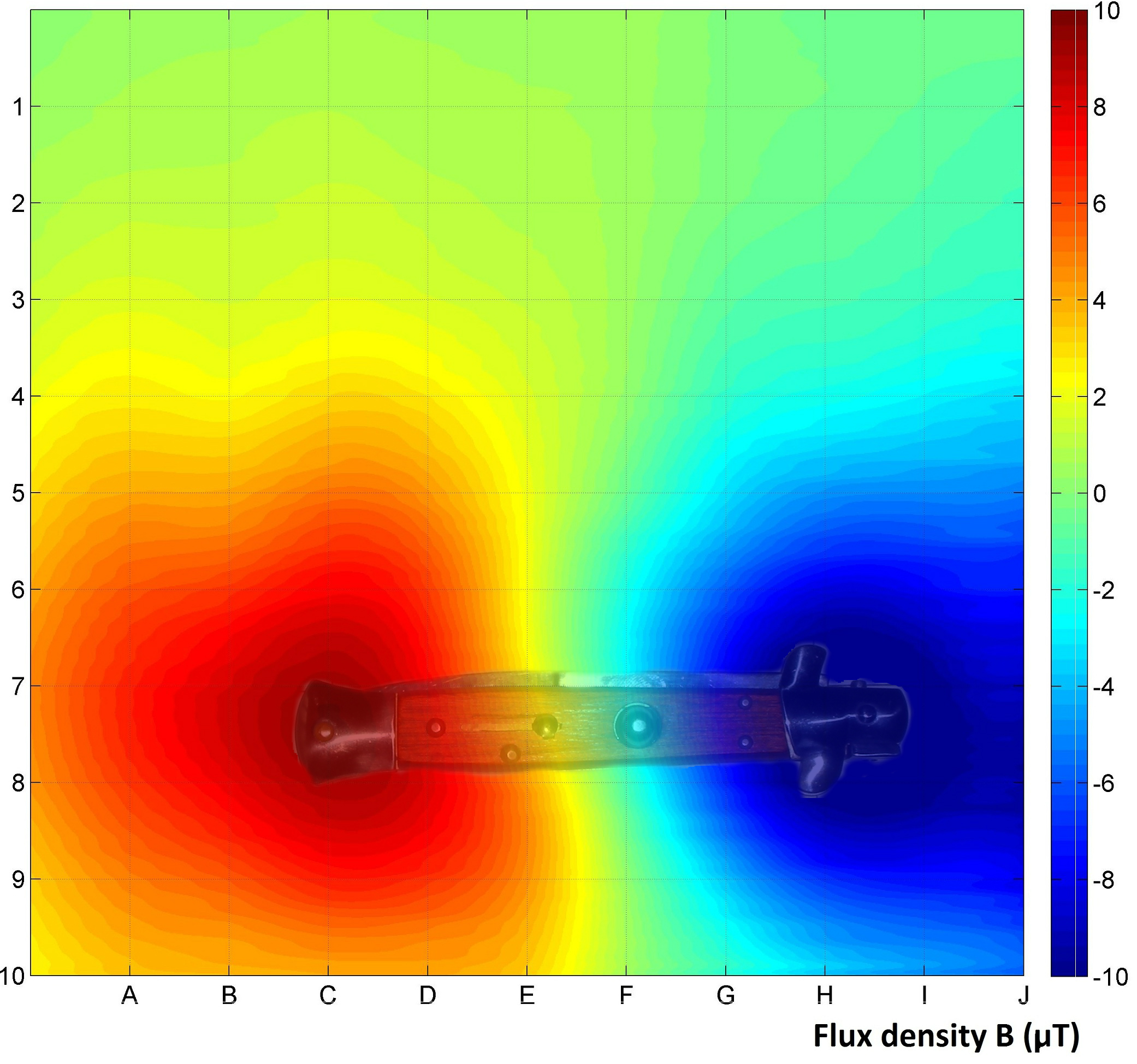 Magnetovision image of the folding knife, obtained by using the gradient method, merged with the photograph of the actual sample position. The colors represents absolute magnetic induction values caused by the object, with the influence of background field removed.